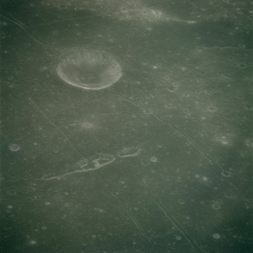 Oblique view of Rimae Sosigenes, with Sosigenes A crater, and an Irregular mare patch in the depression crosscutting the rimae. Color and contrast adjusted to bring out detail.